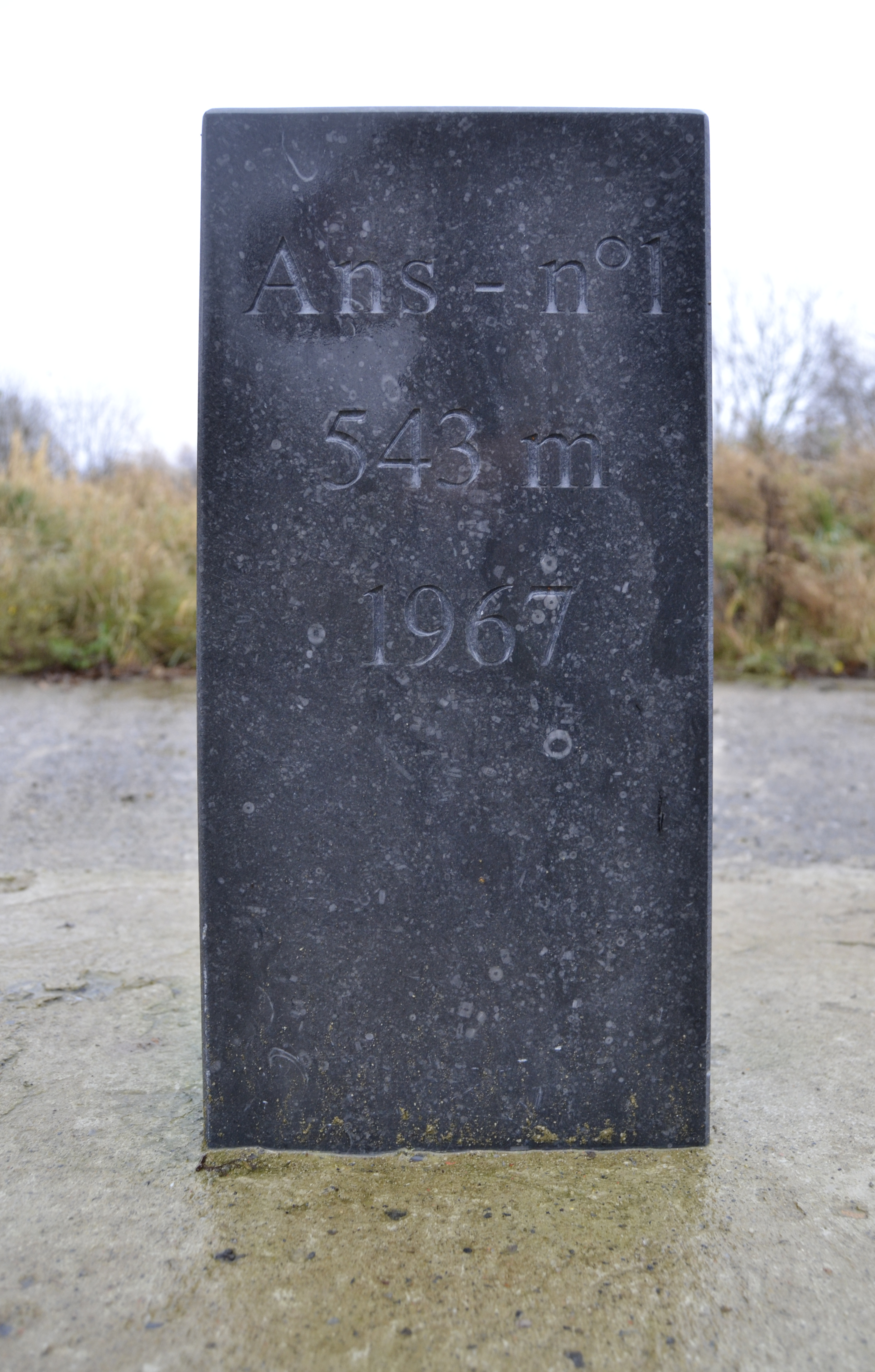 Ancient pit of the Ans coal mine, pit 1, in Liège, Belgium